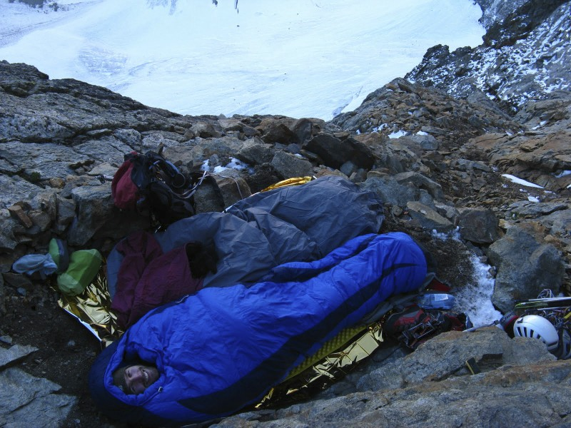 Bivouac, Ailefroide Centrale : Arête de Coste Rouge (arête N)